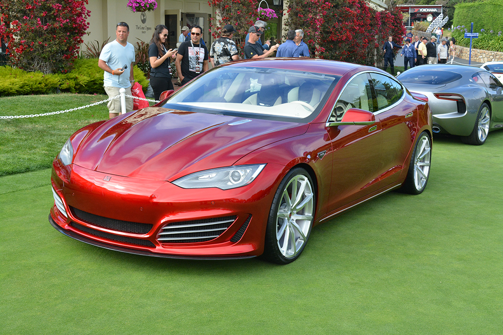 Saleen FOURSIXTEEN at Concours d'Elegance 2014